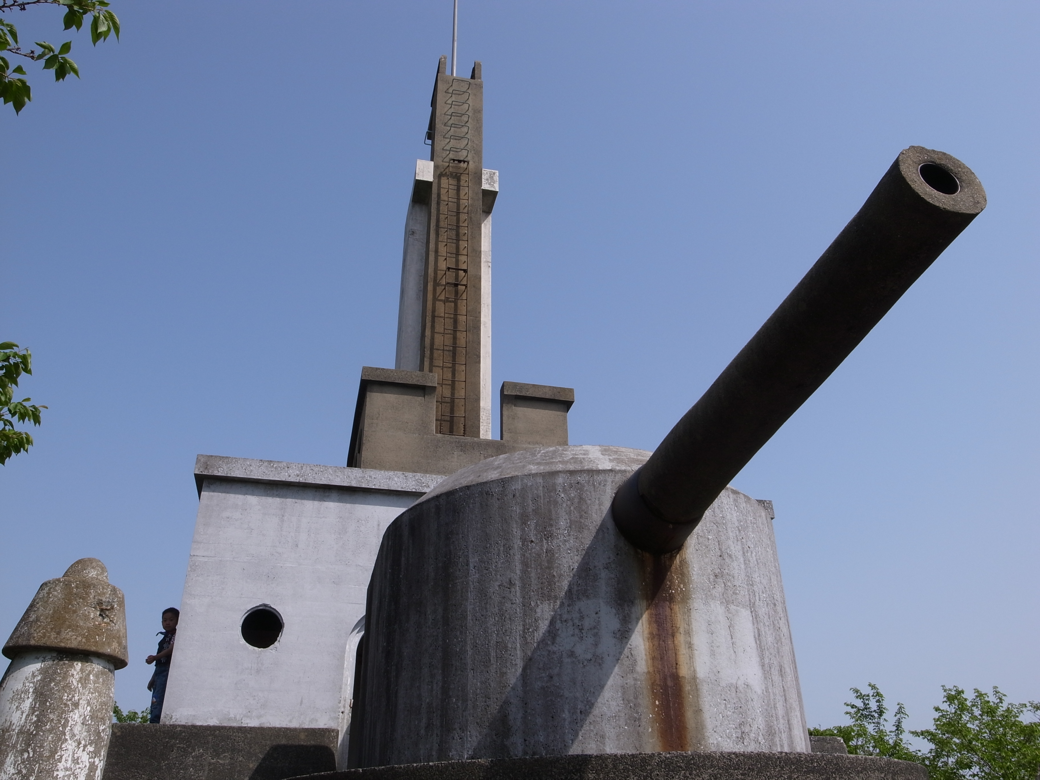 the monument of the Battle of Tsushima (Fukuoka Pref. Japan)